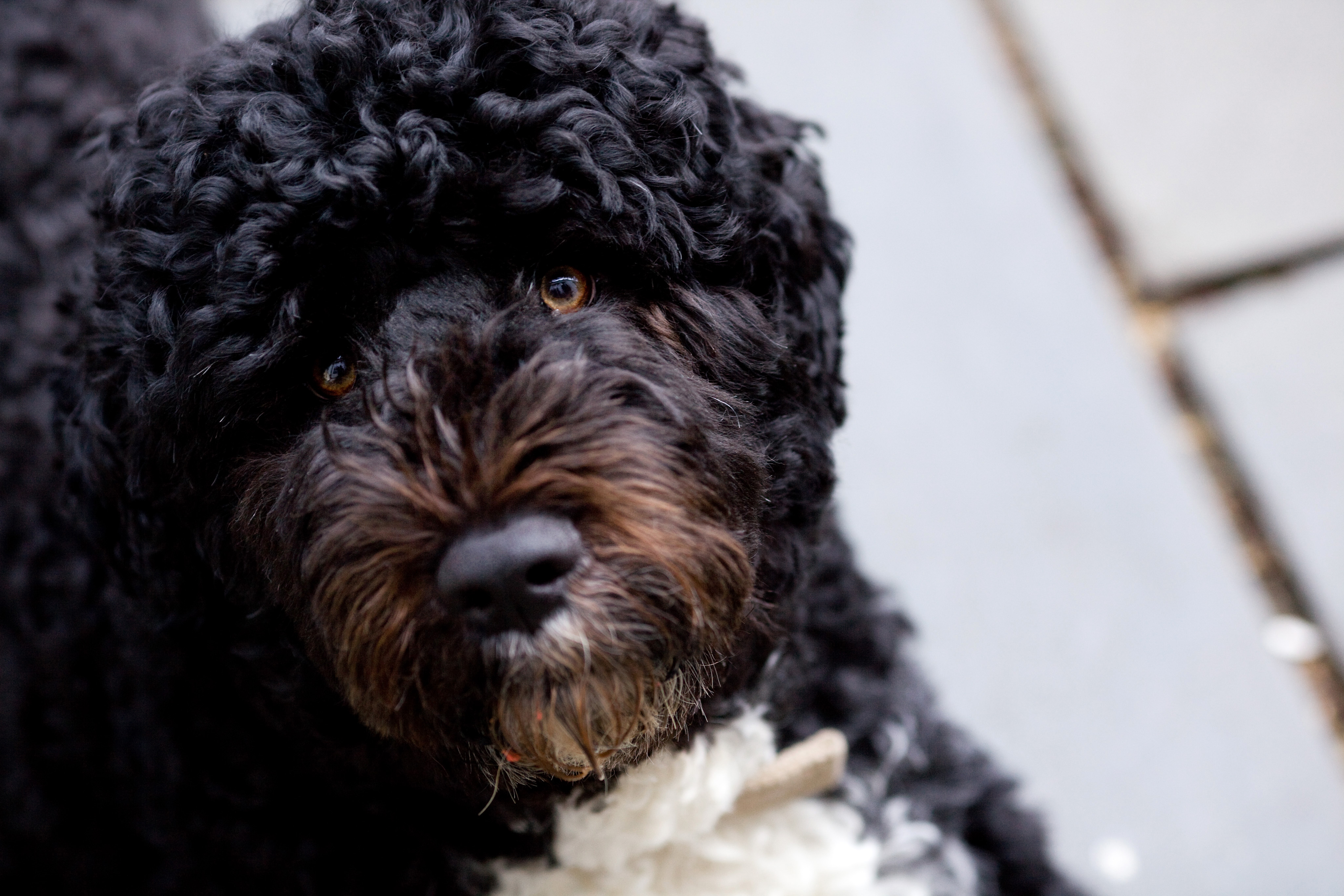 Bo, the Obama family dog, pauses for a moment in the Rose Garden of the White House, March 3, 2010. (Official White House Photo by Chuck Kennedy) This official White House photograph is in the public domain from a copyright perspective, so while restrictions such as personality or privacy rights may apply, in general, manipulations are allowed.